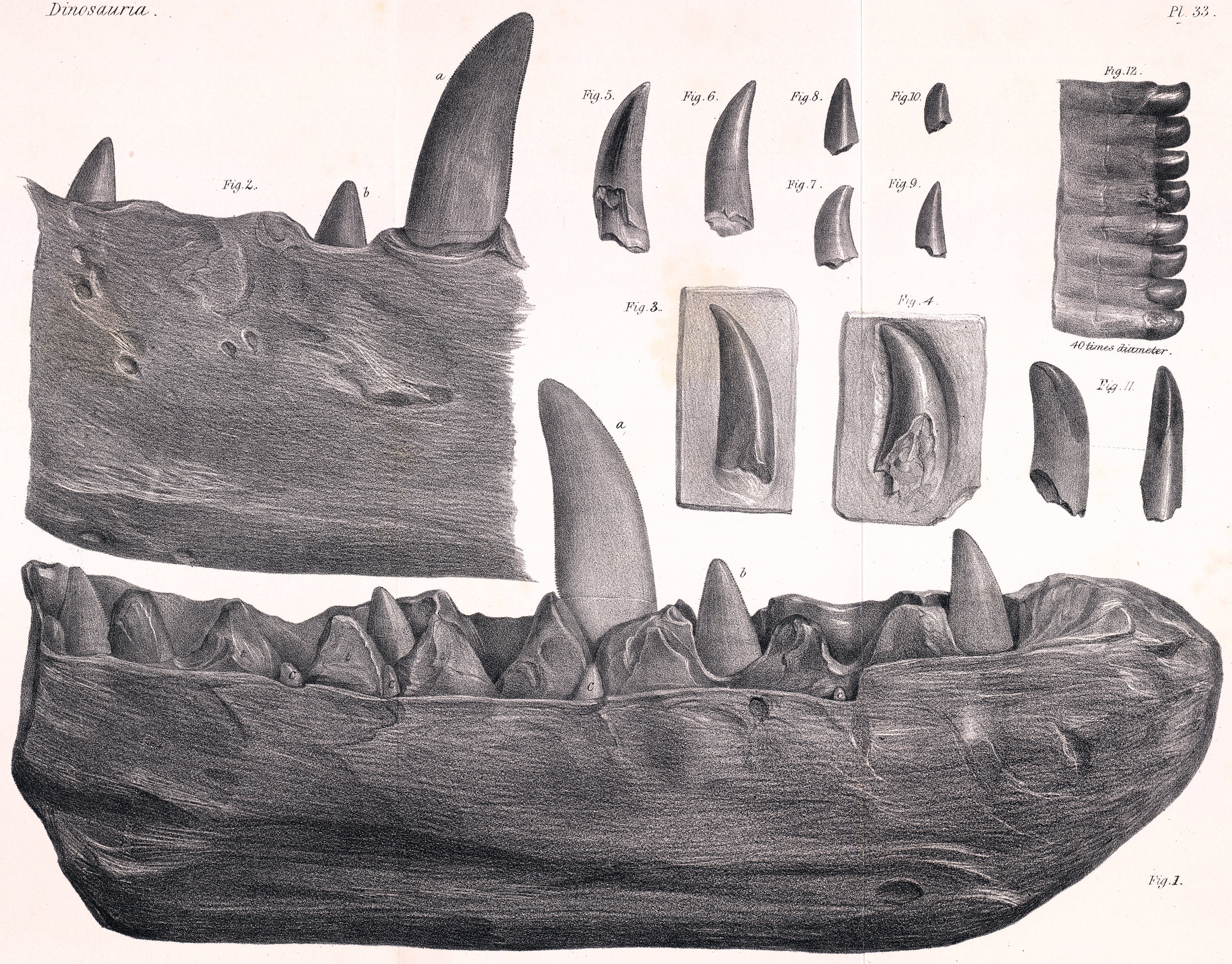 Megalosaurus Bucklandi, nat. size. Fig. 1. Inside view of a portion of the dentary element of the mandible, with teeth. Fig. 2. Outside view of part of ditto. Figs. 3-11. Various teeth, the last much worn. Fig. 12. Magnified view of the finely serrated border of the teeth. Figs. 4, 7, and 9 from the Wealden, of Sussex; fig. 5 from the Corn-brash, of Oxfordshire; fig. 6 from the Bath Oolite, Somersetshire; the rest from the Oolitic Slate, of Stonesfield, Oxfordshire. All the specimens, save fig. 1, in the Oxford Museum, are in the British Museum.